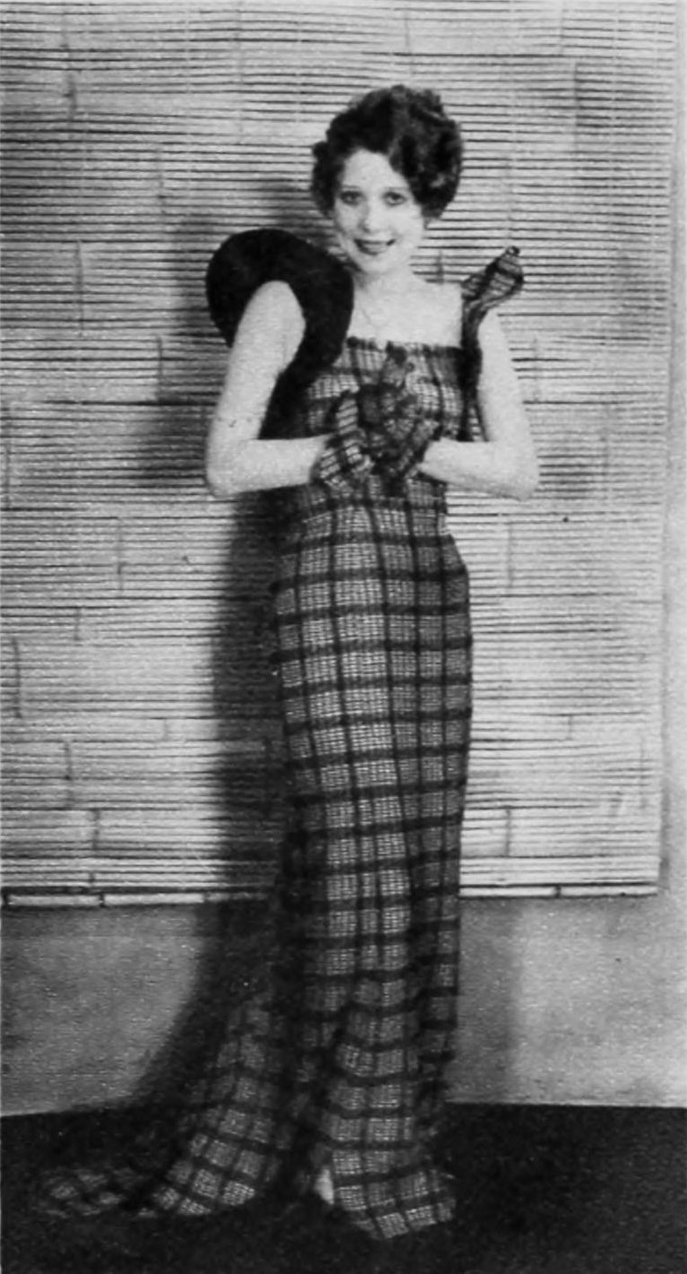 Radio Stars, Oct. 1934. Dress designed by Gladys Parker. A contest was held for this dress; a fan had to write Hanshaw a letter telling which dress they wanted and why in 75 words or less.